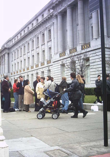 Photo I took of Same-Sex Marriage lines Feb. 15, 2004 in SF